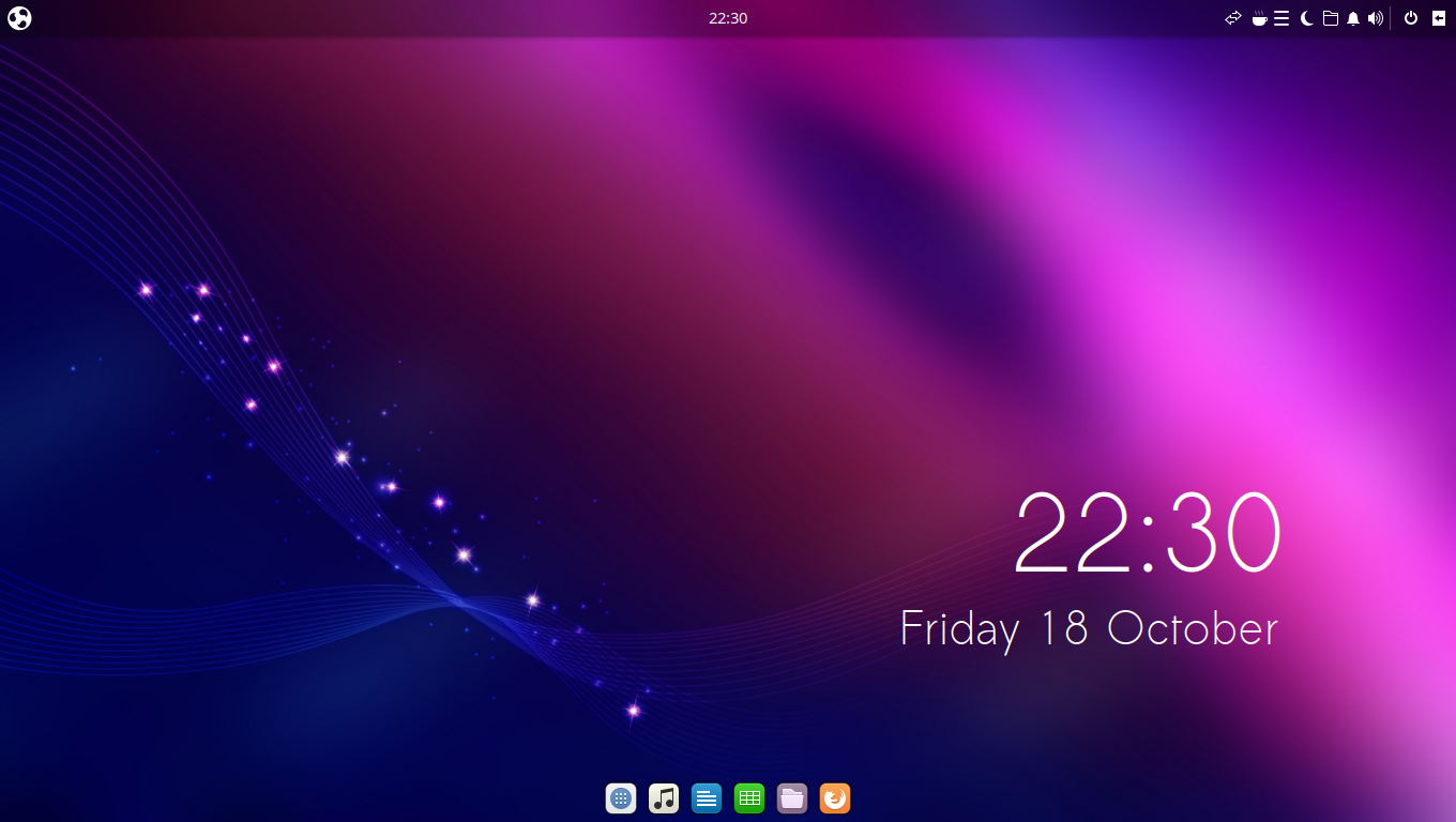 Screenshot of Ubuntu Budgie 19.10